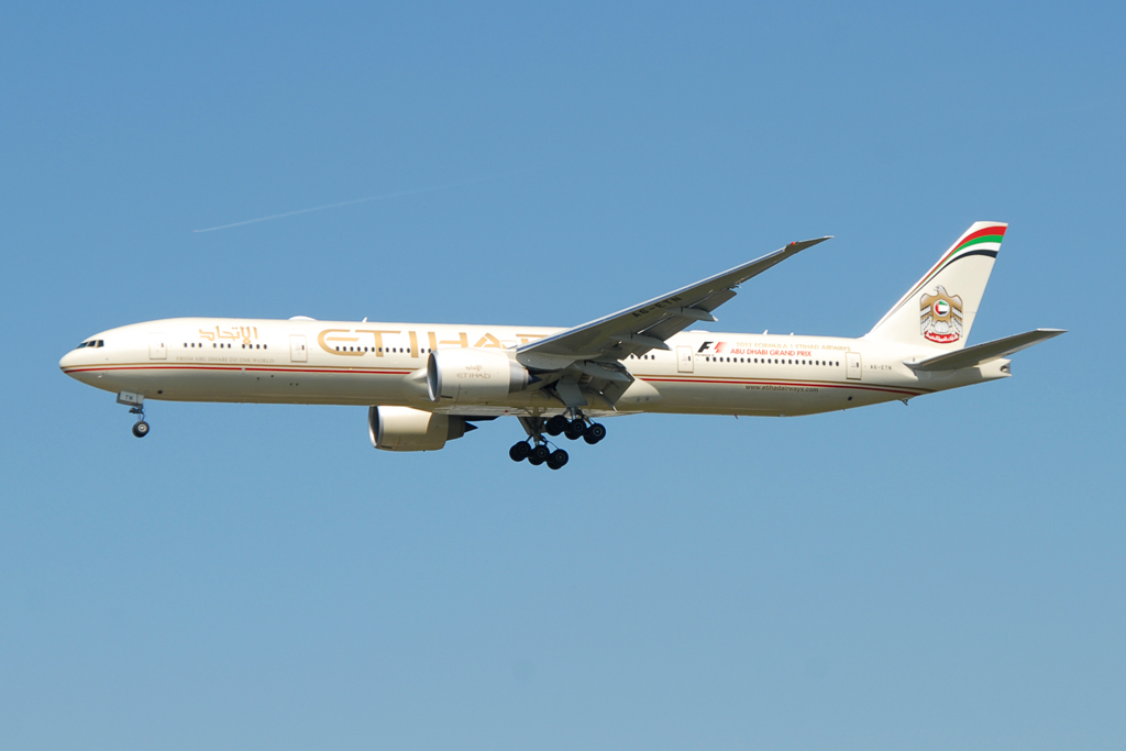 A6-ETN Boeing 777-3FXER msn 39689/1086 operated by Etihad Airways and seen on short finals for 27L at London Heathrow (LHR/EGLL).